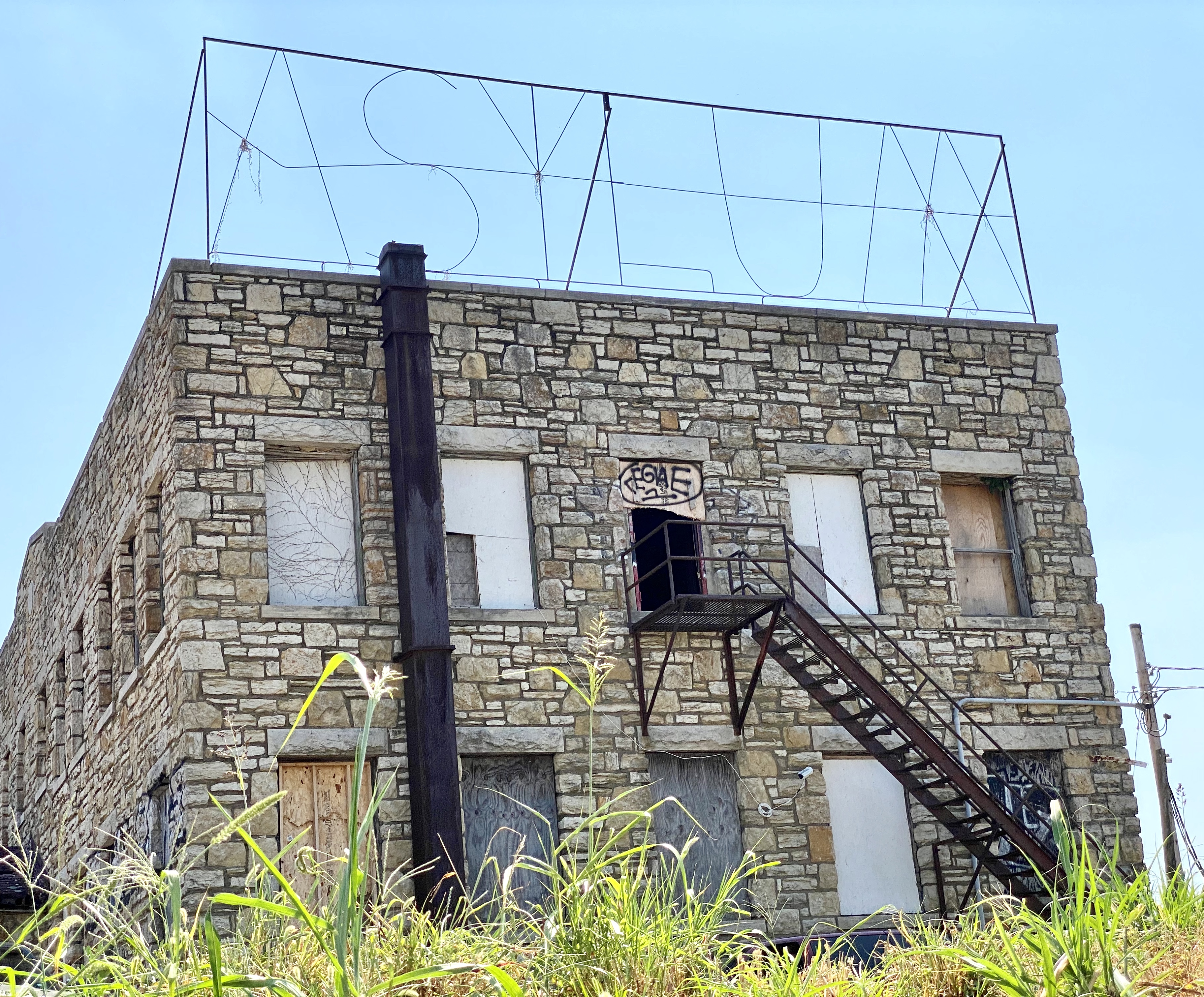 Wheatley-Provident Hospital, north face, where the “ASYLUM” sign is on the roof as a remnant from having been a Halloween haunted house attraction in the 1980s-1990s